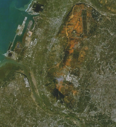 Dadu Plateau.It's from a screenshot of NASA World Wind.